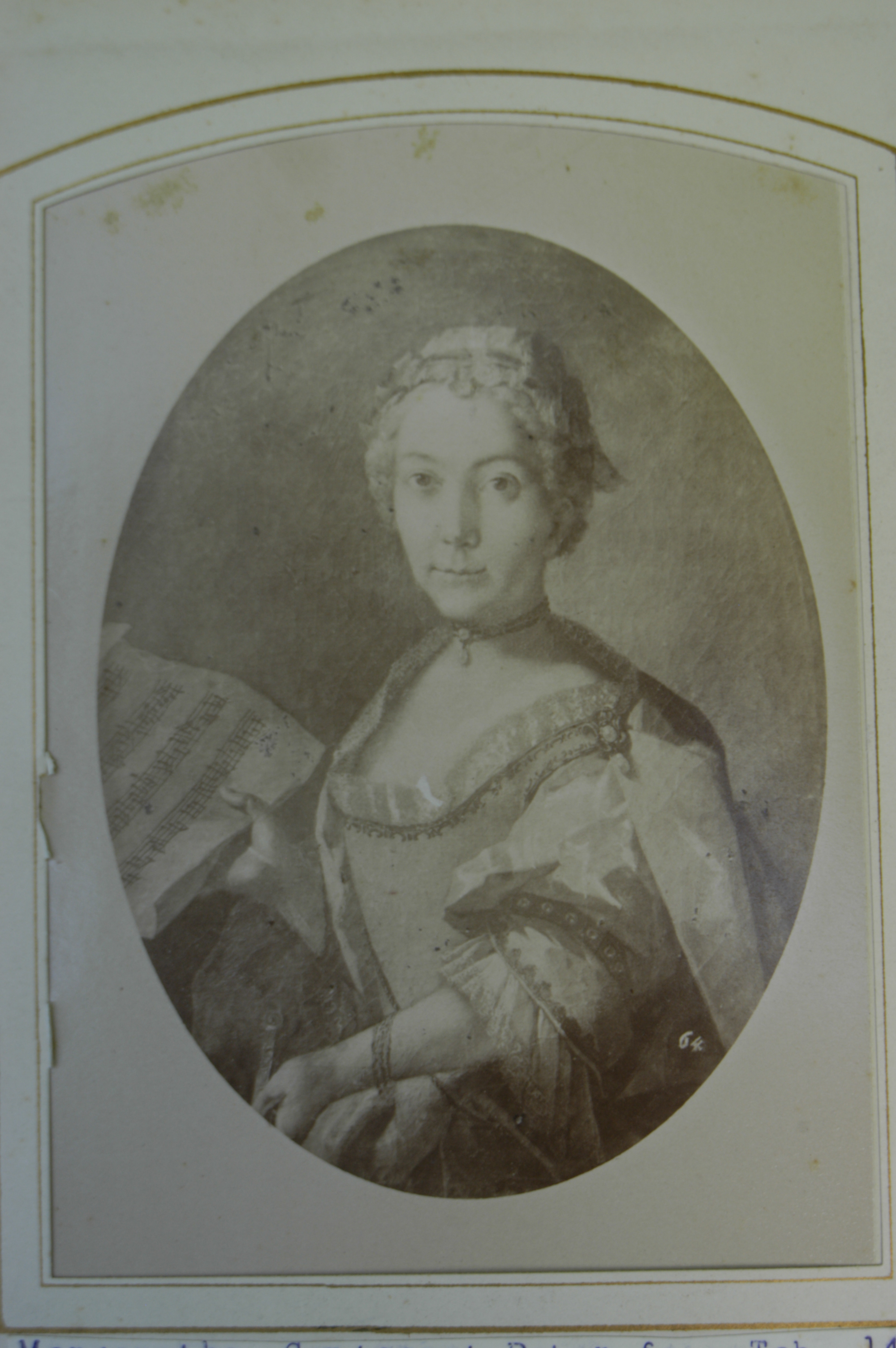 My photo (R. de Salis,Rodolph (talk) 10:30, 4 July 2014 (UTC)) of a pre-1884 photo of a painting of Margaretha de Salis-Soglio (1704-1765), wife of Anton & daughter of Peter.